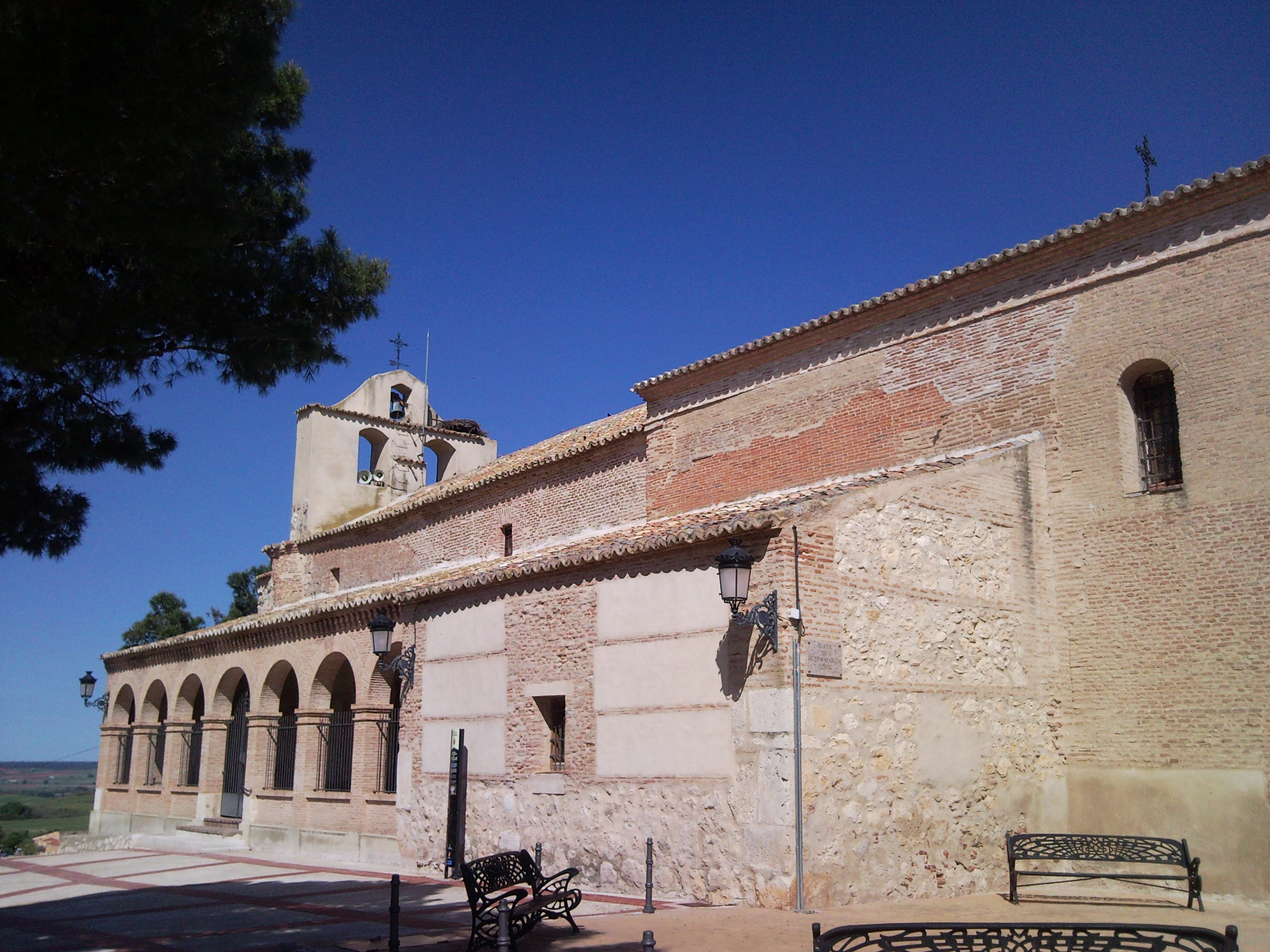 Tórtola de Henares church